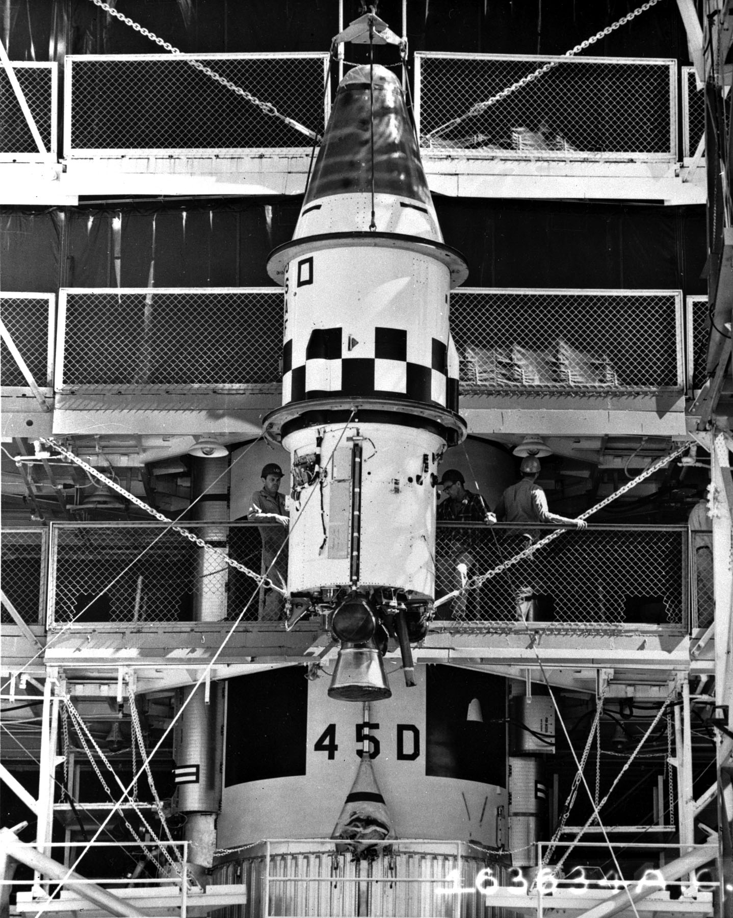 Agena A upper stage with Bell Model 8048 rocket positioned on top of an Atlas rocket at Cape Canaveral, ahead of the May 1960 launch of MIDAS-2